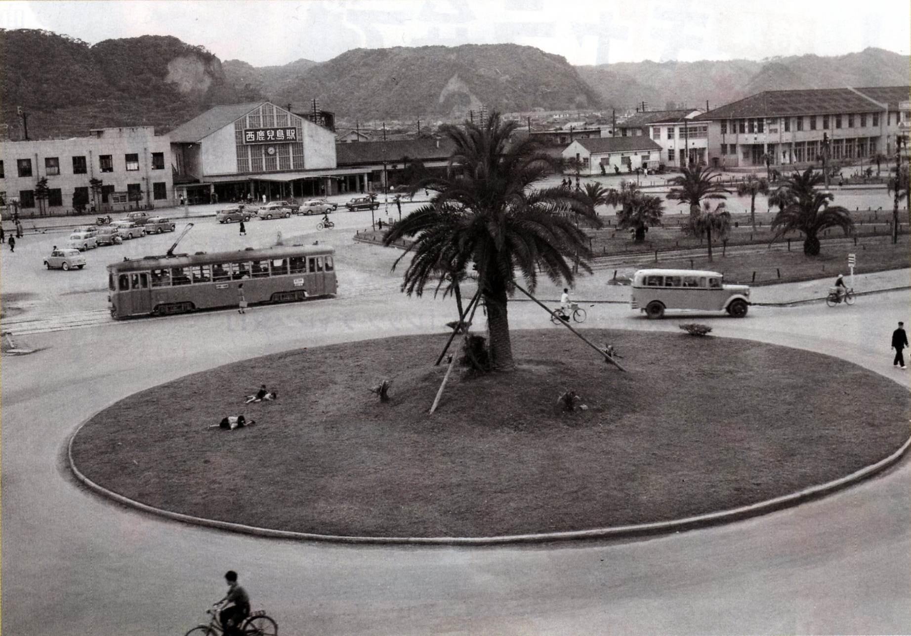 Nishi-Kagoshima Station in 1959 (Present Kagoshima-Chuo Station - Kagoshima Prefecture, Japan)